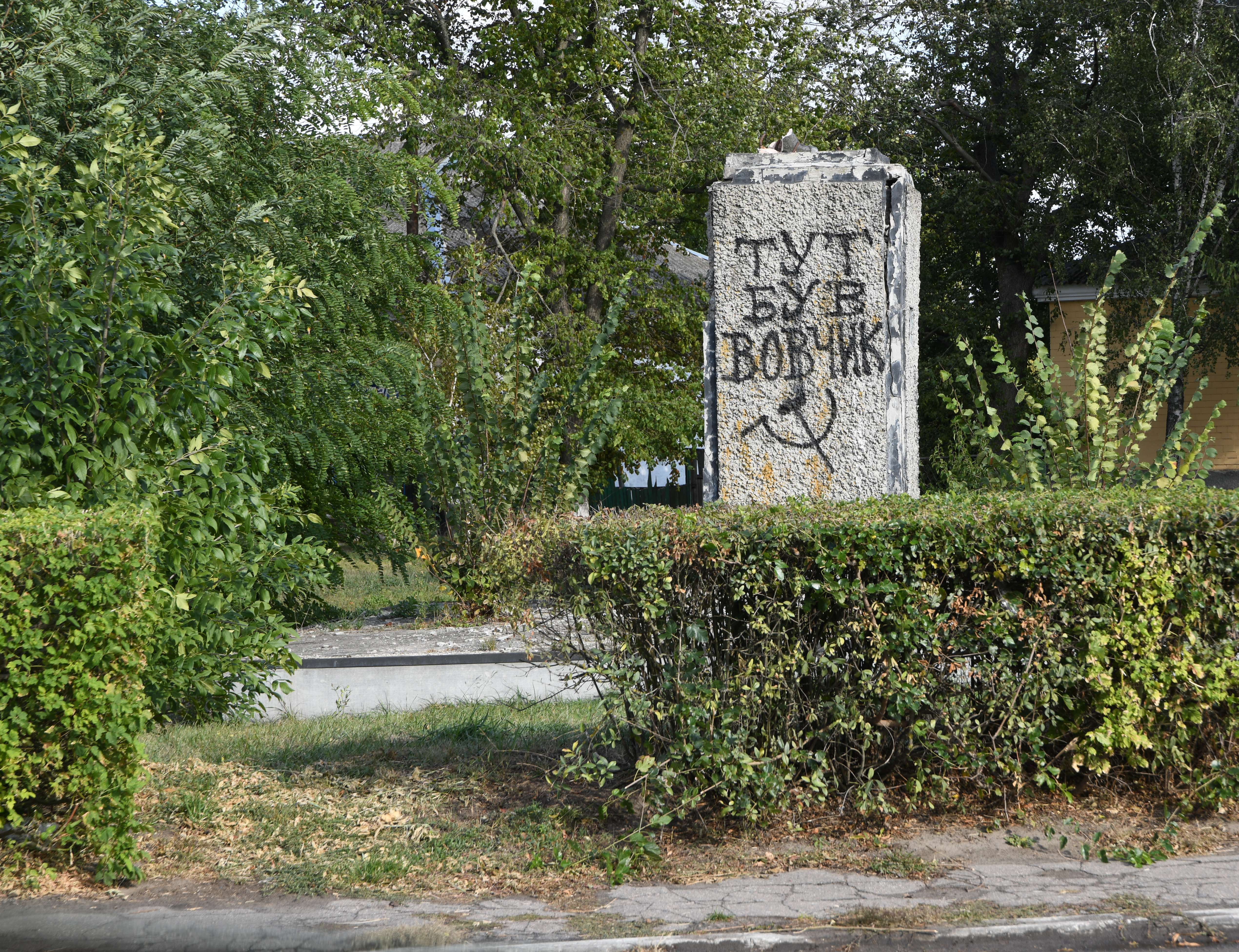 The pedestal of Lenin's statue in Velyki Sorochyntsi after the "Leninopad" (systematic removing of Lenin's statues). The inscription says "Here was Vovchik". Vovchik is a very familiar kiddy nickname for Vladimir (Lenin).